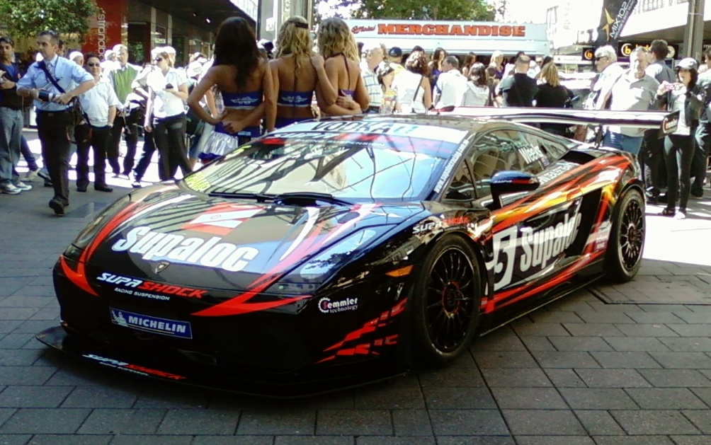 The Lamborghini Gallardo of Kevin Weeks in Rundle Mall, Adelaide prior to the opening round of the 2011 Australian GT Championship.